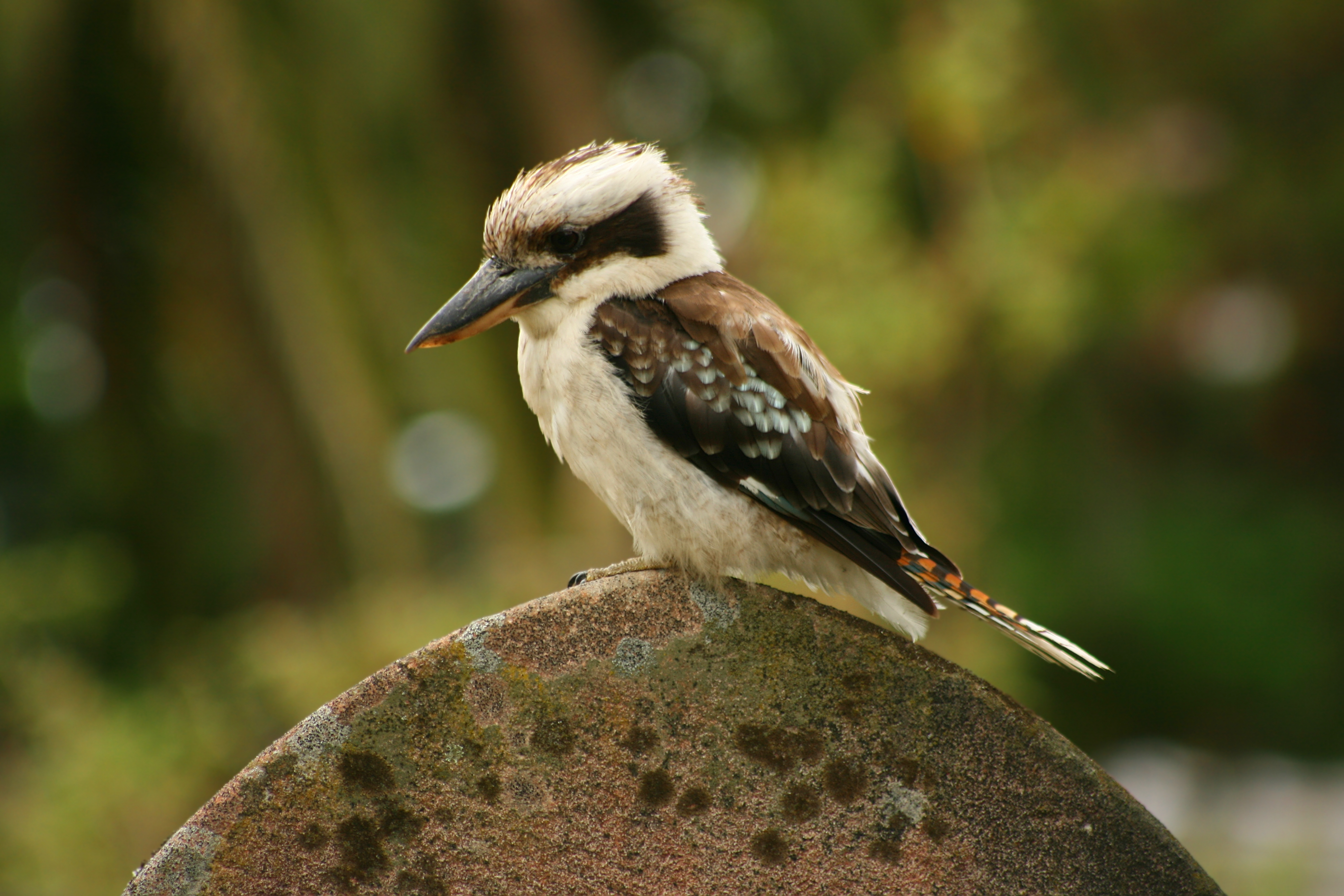 A mature Laughing Kookaburra (Dacelo novaeguineae) with its eyes focused on a potential food source, perches atop a sandstone gravestone at St. John the Baptist's Anglican Church, Ashfield, NSW, Australia.